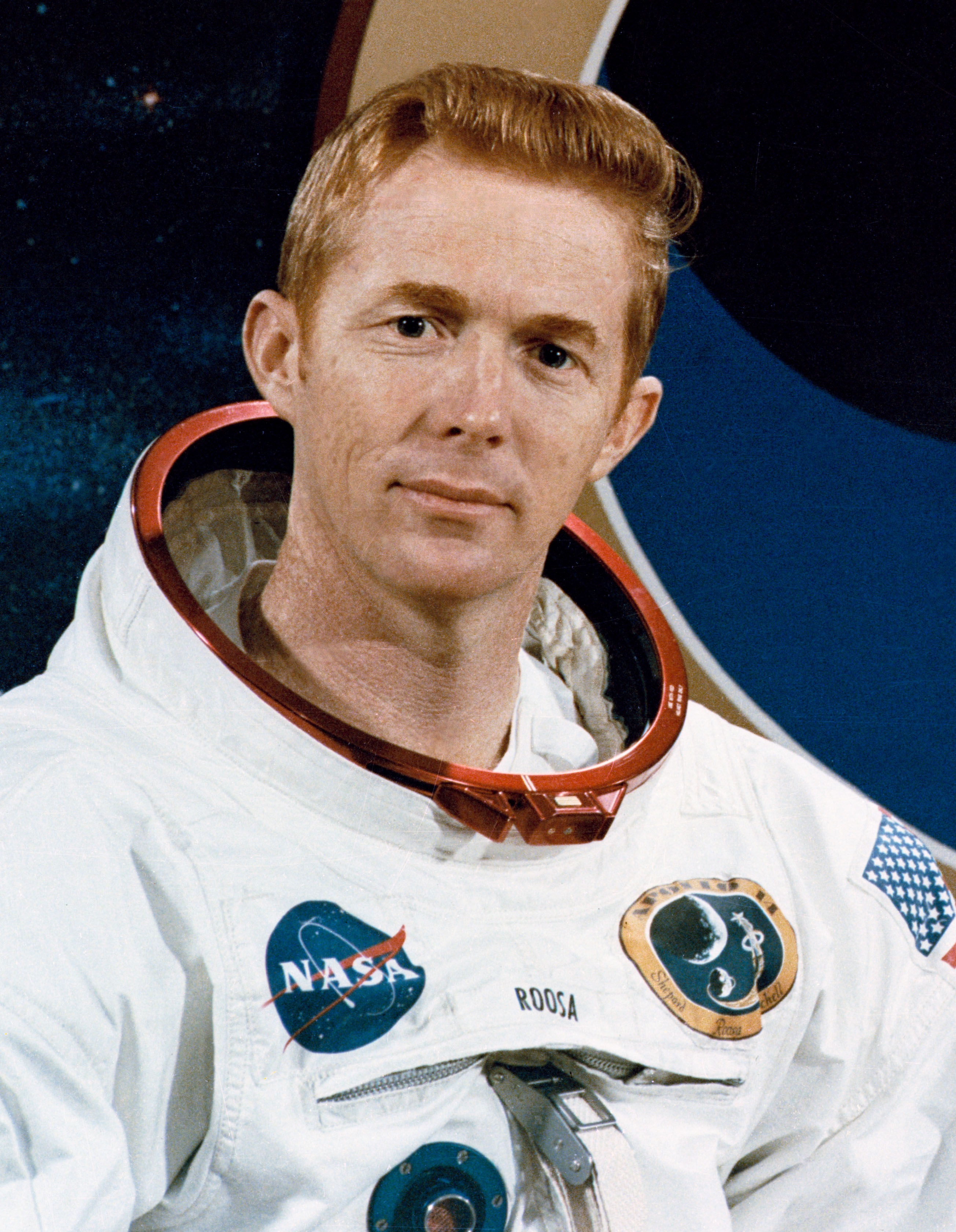 Astronaut Stuart Roosa